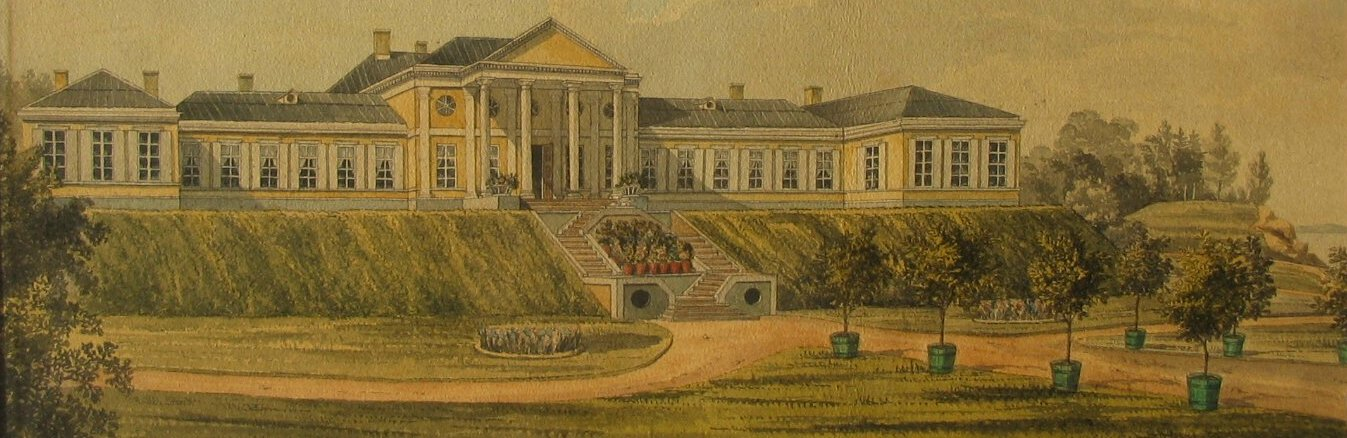 Monrepos Manor about 1830